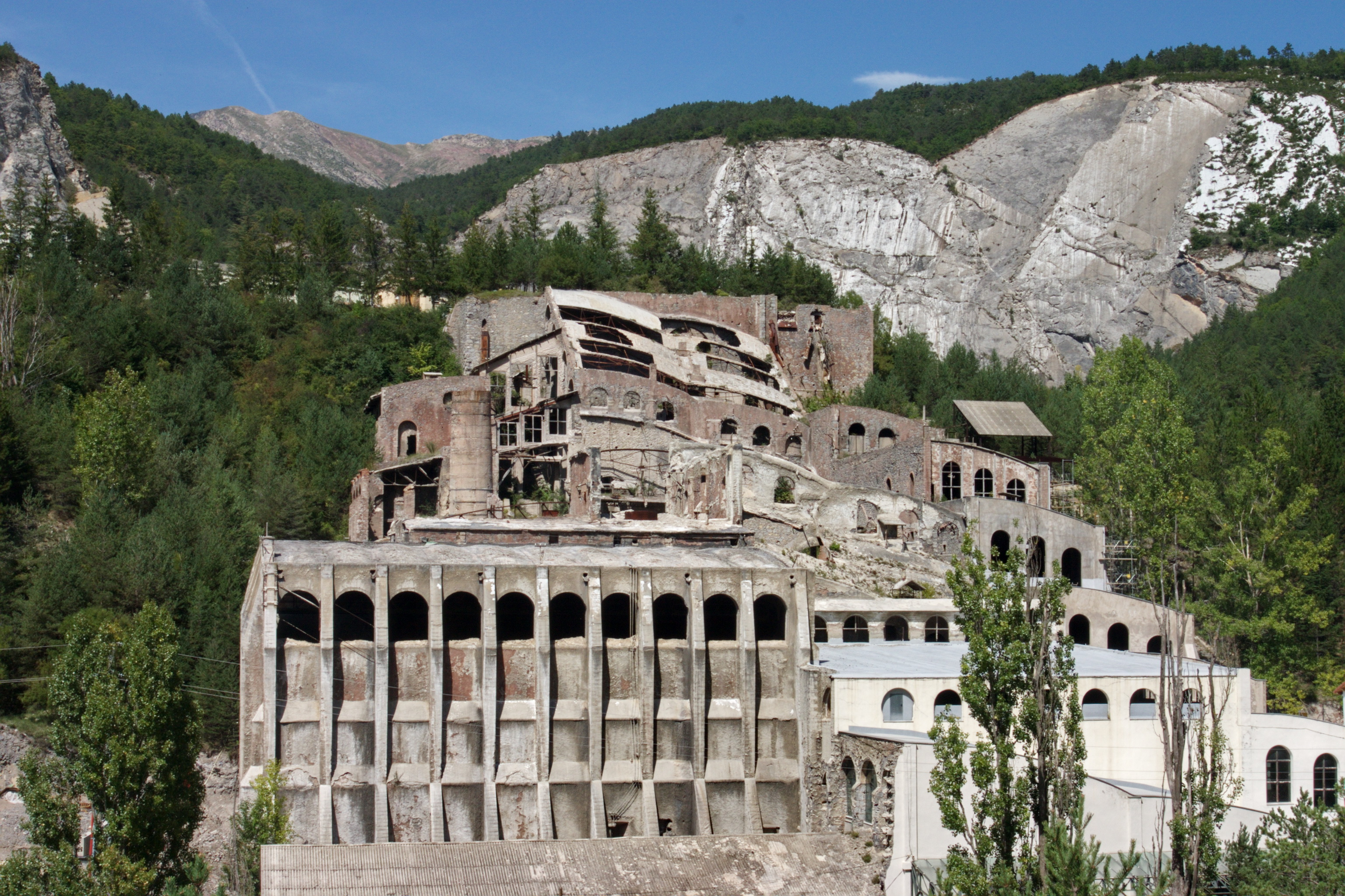 Old cement factory "Asland", created in 1901 (Castellar de n'Hug, Berguedà, Catalonia).